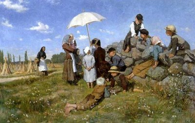 awarded the Royal Medal